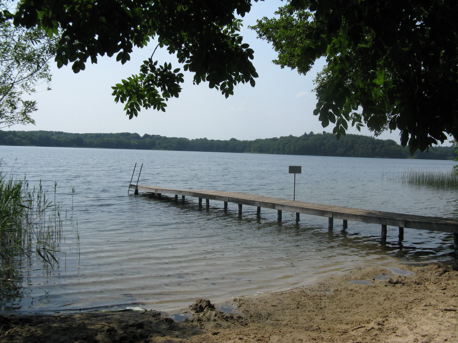 Schaalsee in Lassahn, district Ludwigslust-Parchim, Mecklenburg-Vorpommern, Germany